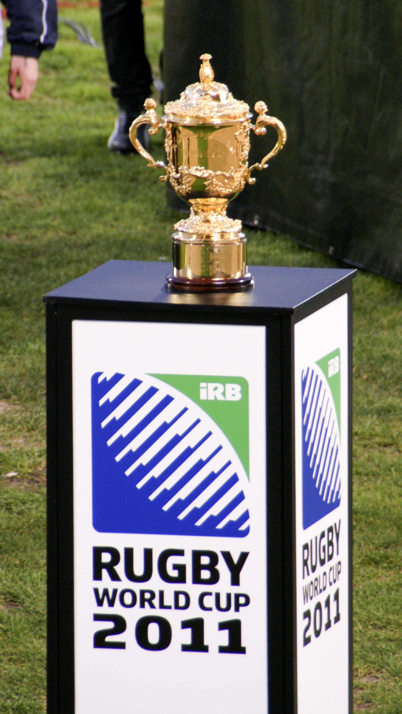 The Webb Ellis Cup before 2011 Rugby World Cup match between Georgia and Romania in Palmerston North.